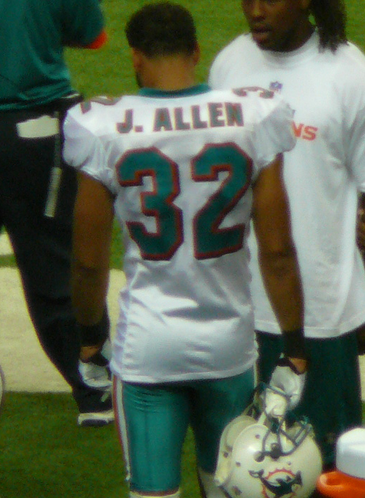 If used somewhere other than Wikipedia, Nelson, by name.